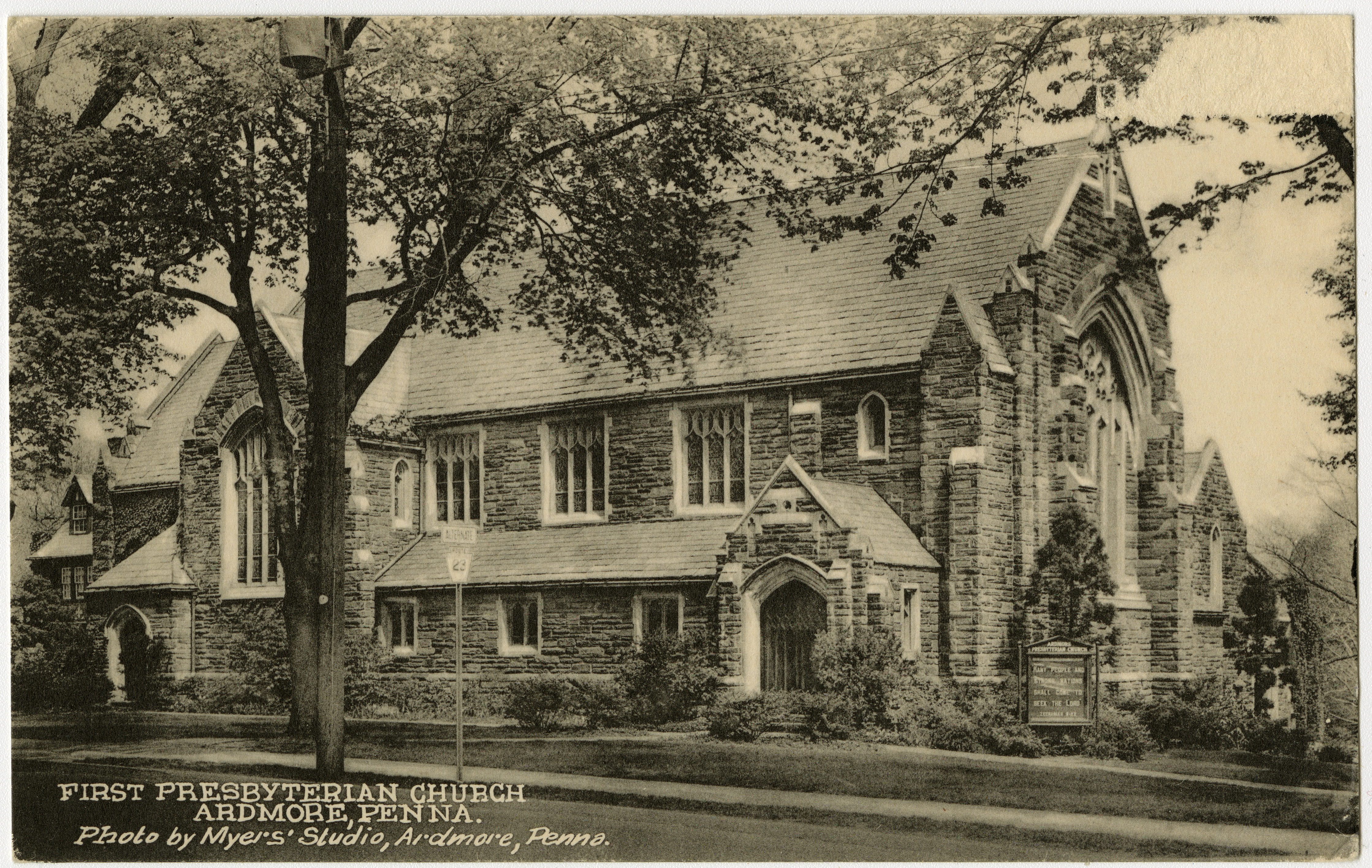 First Presbyterian church in Ardmore, Pennsylvania from a pre-1923 postcard From RG 428, Postcard Collection, Presbyterian Historical Society, Philadelphia, Pennsylvania.